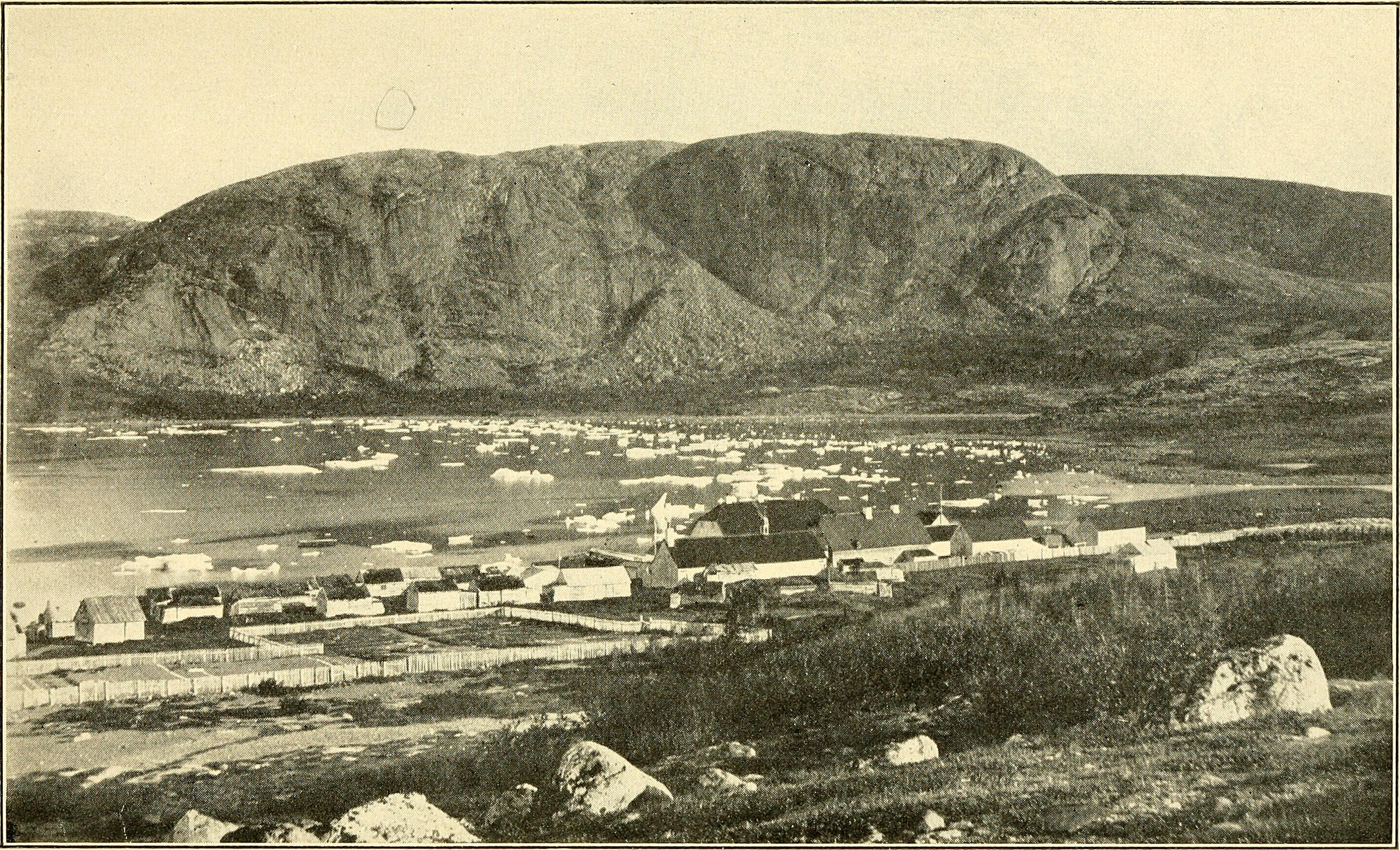 Title: Labrador, the country and the people Year: 1909 (1900s) Authors: Grenfell, Wilfred Thomason, Sir, 1865-1940 Subjects: Natural history Publisher: New York, The Macmillan co. Text Appearing Before Image: ' Text Appearing After Image: LABRADOR THE COUNTRY AND THE PEOPLE BY WILFRED T. GRENFELL, C.M.G., M.R.C.S.,M.D. (OxoN.) AND OTHERS Neb) gork THE MACMILLAN COMPANY 1909 All rights reserved 6-s Copyright, 1909,By the MACMILLAN COMPANY. Set up and electrotyped. Published November, 1909. J. S. Gushing Co. —Berwick & Smith Co.Norwood, Mass., U.S.A. 1~ ©Gl.A25r37^ FOREWORD By Wilfred T. Grenfell Haying selected for myself a role in life that compelsme to pass most of my days along the coasts of Labrador,I have come to love the rugged fastnesses of my adoptedcountry, and to lament the amount of almost Stygian dark-ness that hangs still over it and its resources. With re-gard to the future of this vast area, nearl)^ half a millionsquare miles, I am myself an optimist. True it is thatthe great tide of humanity flowing ever westward has forthe most part passed it by, leaving it lone and frigid inits polar waters. But the hand of man has grappled withharder problems than this presents. A scientific man has but recentllabradorcountryp02gren